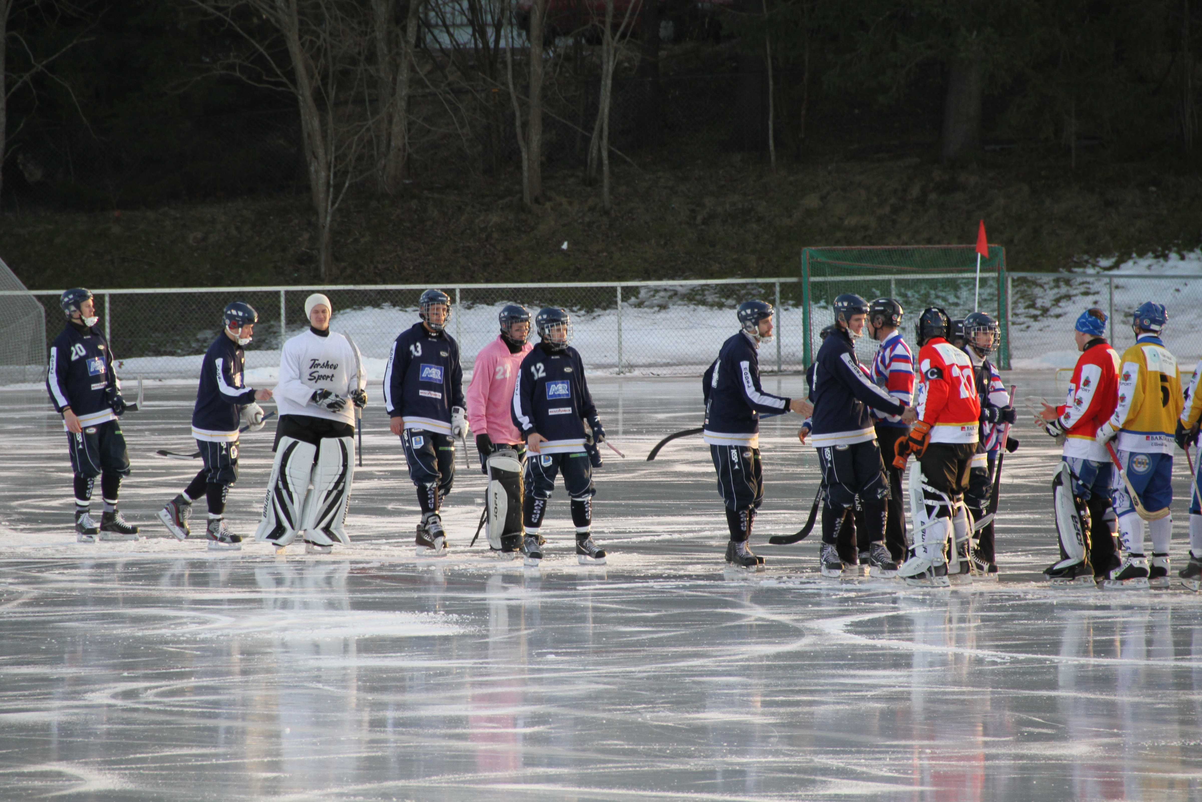 Gressbanen, bandy arena of Ready IL, Oslo. Teams are Ready (blue) and Ullevaal Bandy (yellow)